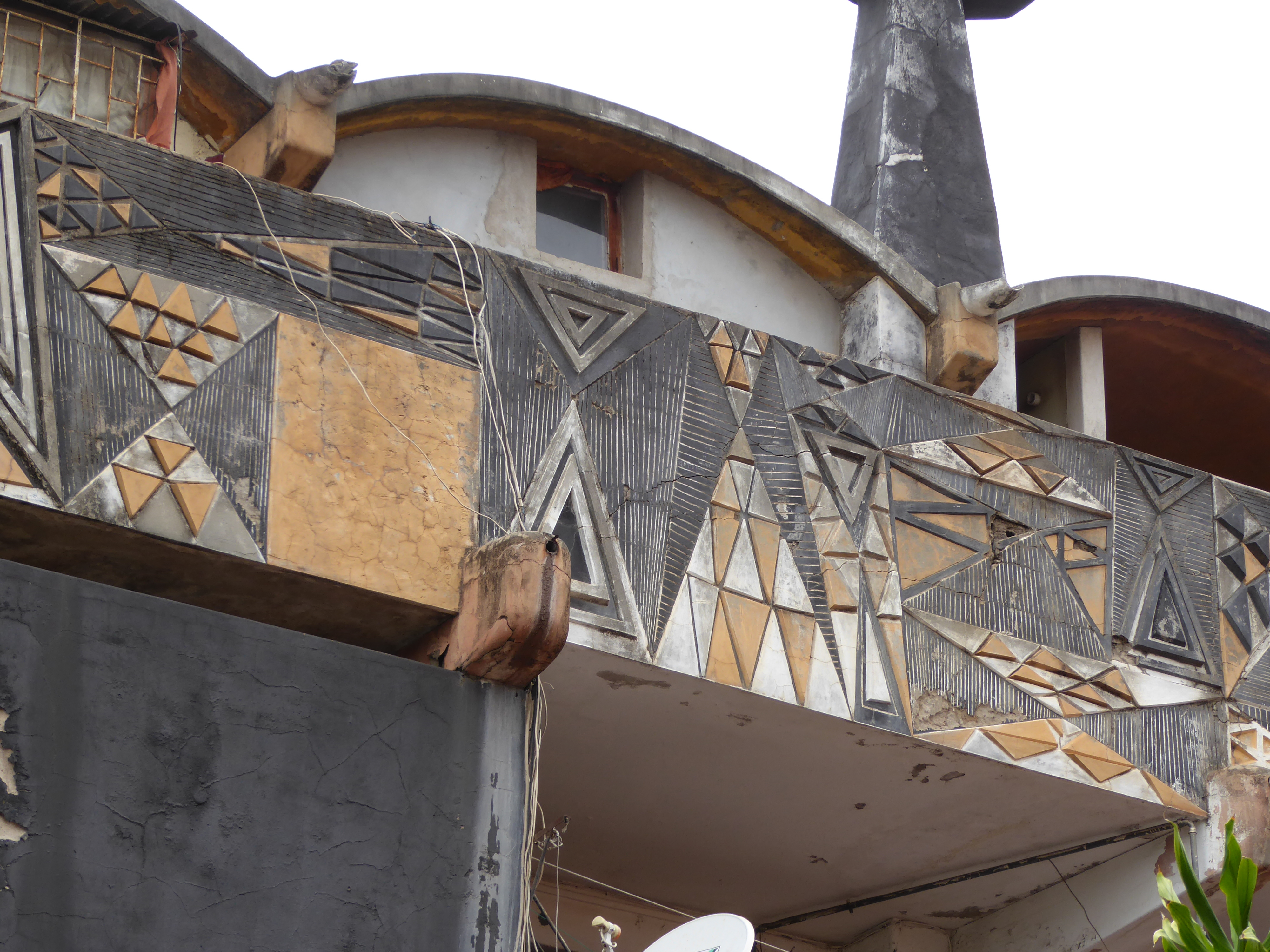 Detail at the façade of the O Leão Que Ri building, Maputo, Mozambique